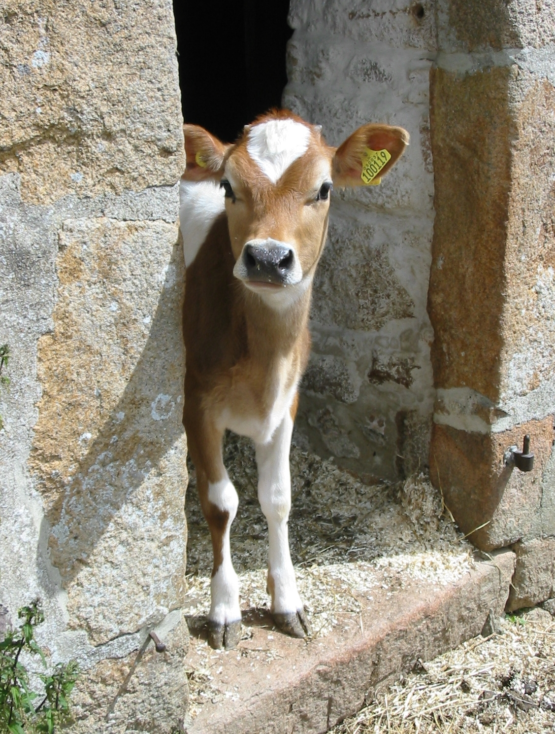 Hamptonne